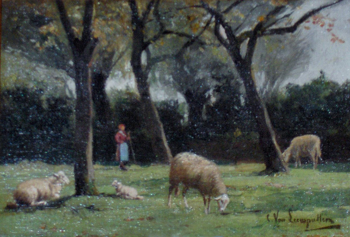 "Shepherdess with sheep" - oil painting on canvass by Cornelis van Leemputten (1841-1902)